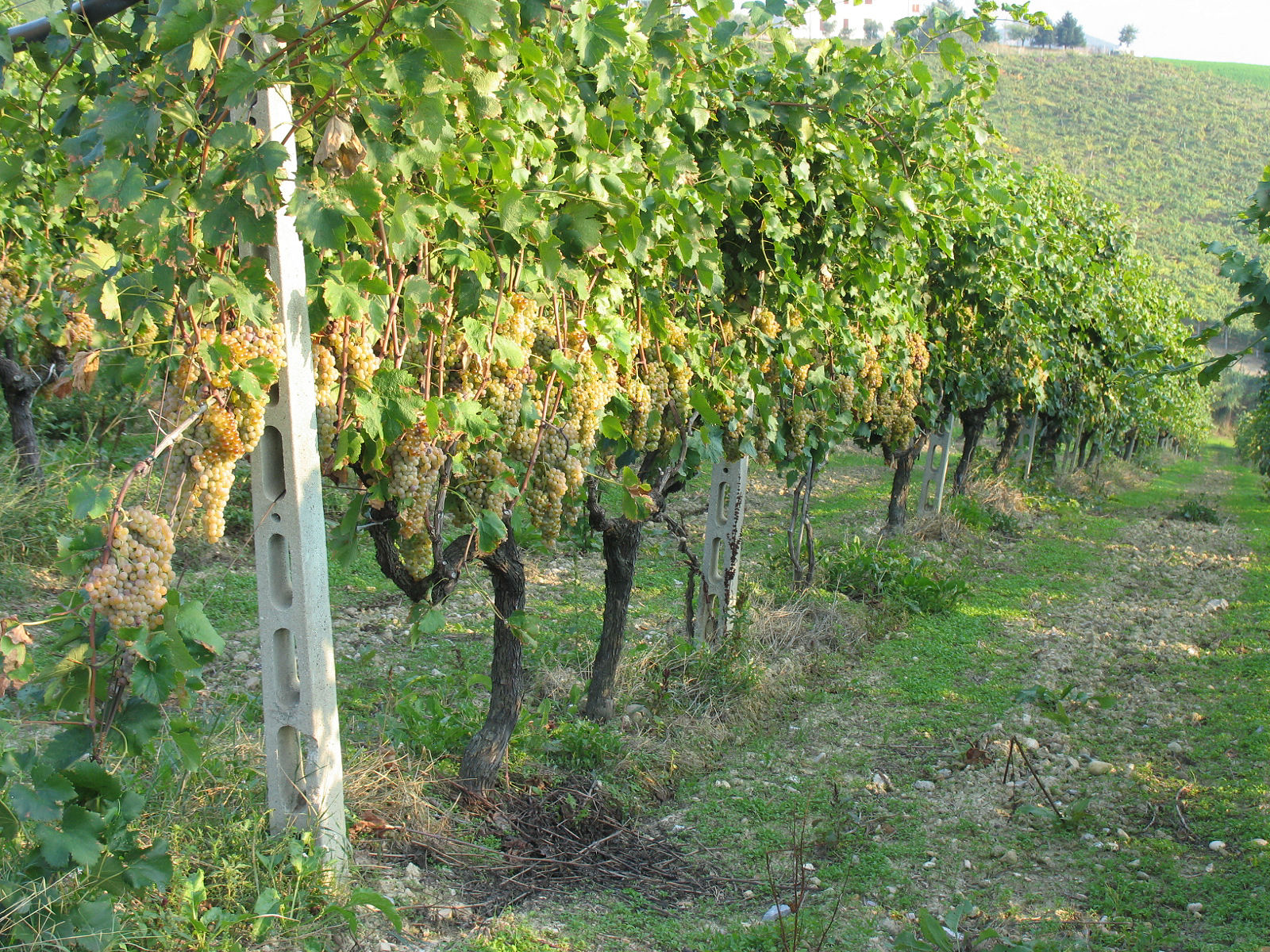 uve trebbiano Grapes of the variety Trebbiano (also called Ugni Blanc in France) in vineyard in Marche, Italy